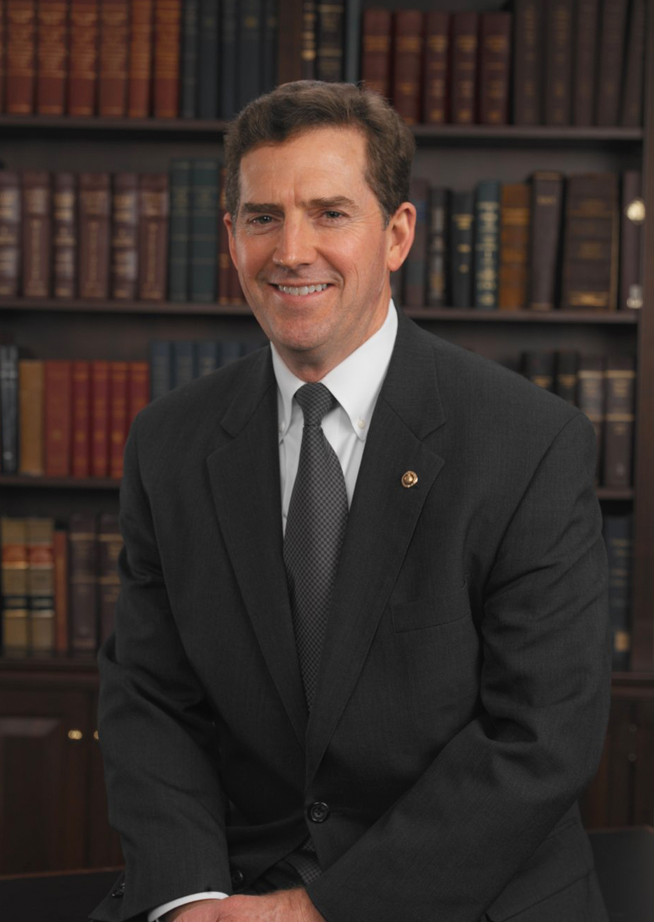 Official photo of U.S. Senator Jim DeMint.